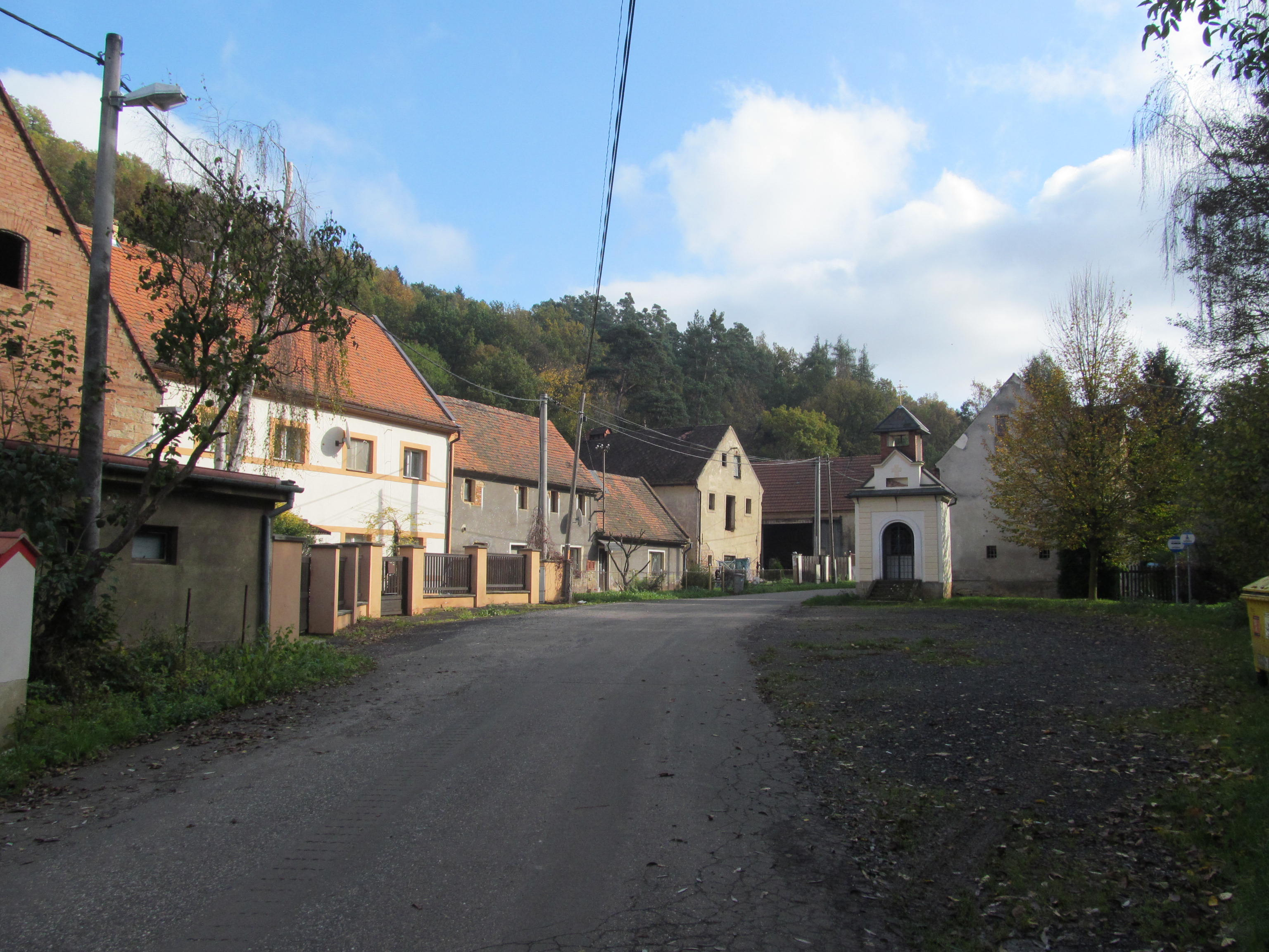 Lower village square with chapel from 19th century in Sádek